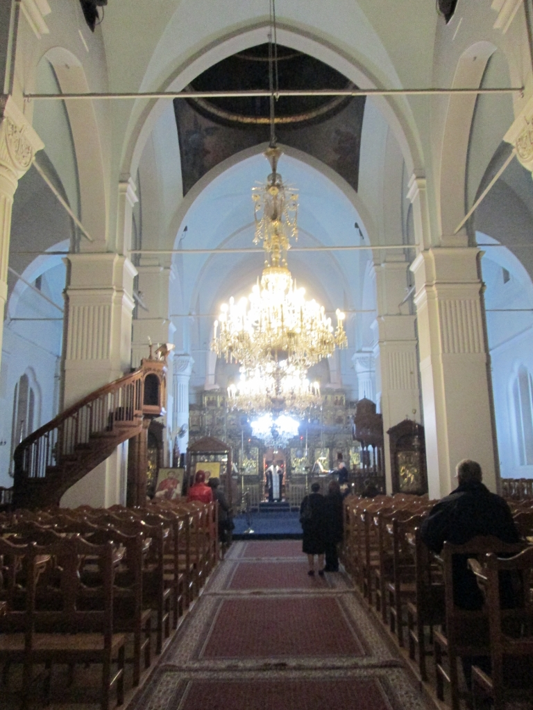 Interior of Faneromeni Anient Church Nicosia Republic of Cyprus